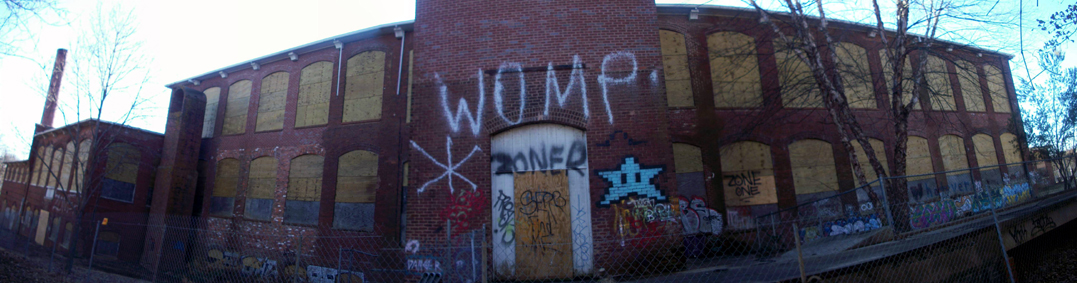 Unused and Closed Mecklenburg Mill - viewed from the historic "front door" at the train tracks (this is now the back of the building)